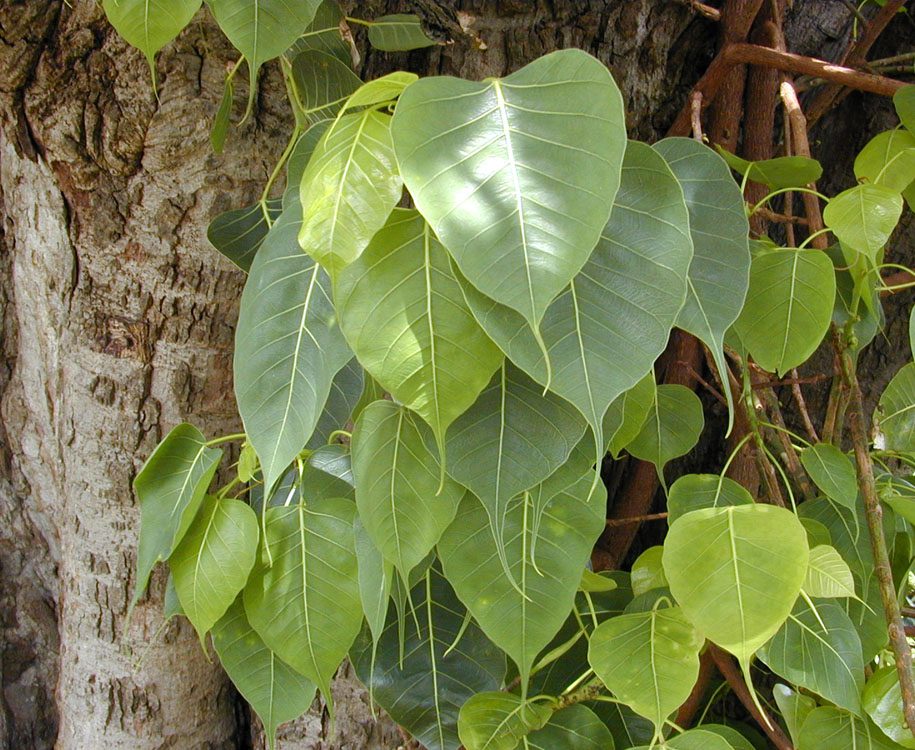 Image of Ficus religiosa, leaves and trunk of "Bo tree" growing at Schofield Barracks in central Oahu, Hawaiian Islands